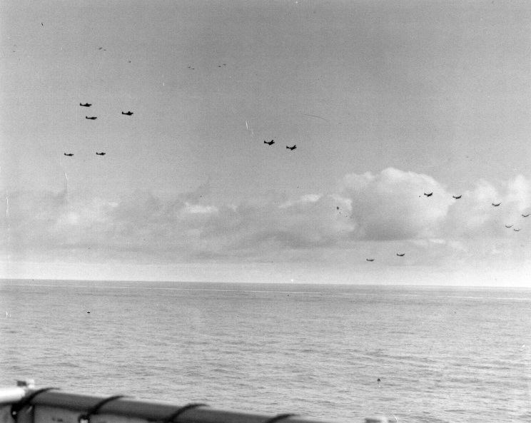 15 U.S. Navy Douglas TBD-1 Devastator torpedo bombers of Torpedo Squadron 8 (VT-8) from the aircraft carrier USS Hornet (CV-8) in flight, circa May-June 1942. Note the planes flying above.